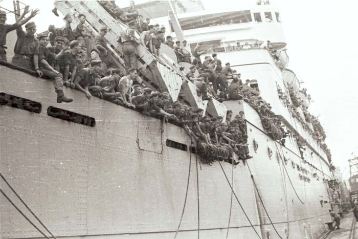 Dutch soldiers on board the troop ship ms. Boissevain on arrival at the port of Tanjong Priok TMnr